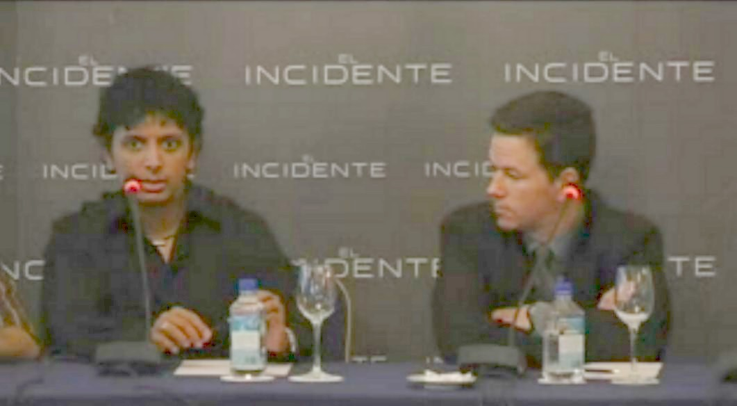 M. Night Shyamalan (left) and Mark Wahlberg (right) at the presentation of the film The Happening in Madrid (Spain).